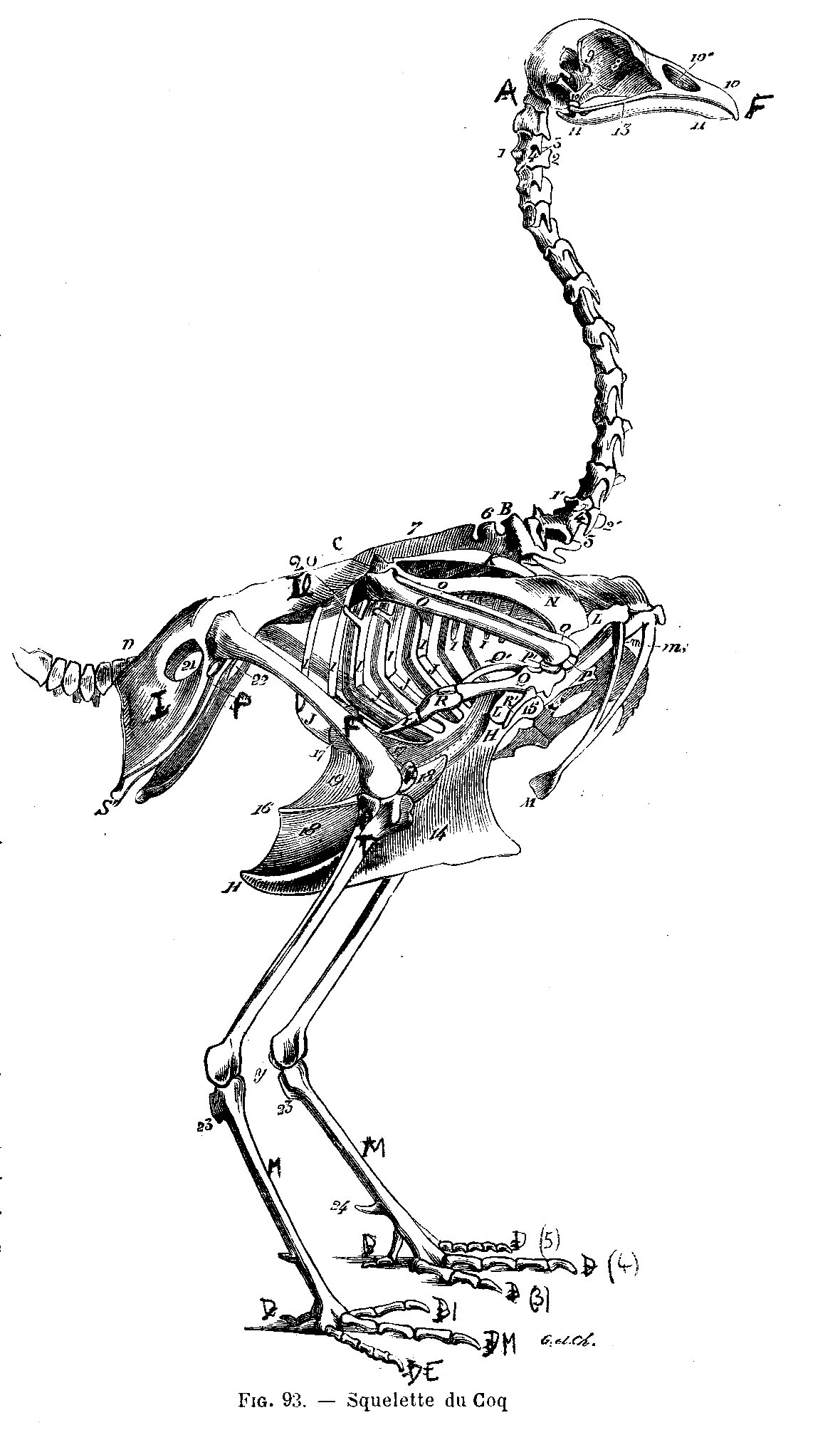 The skeleton of the cock (Gallus gallus)